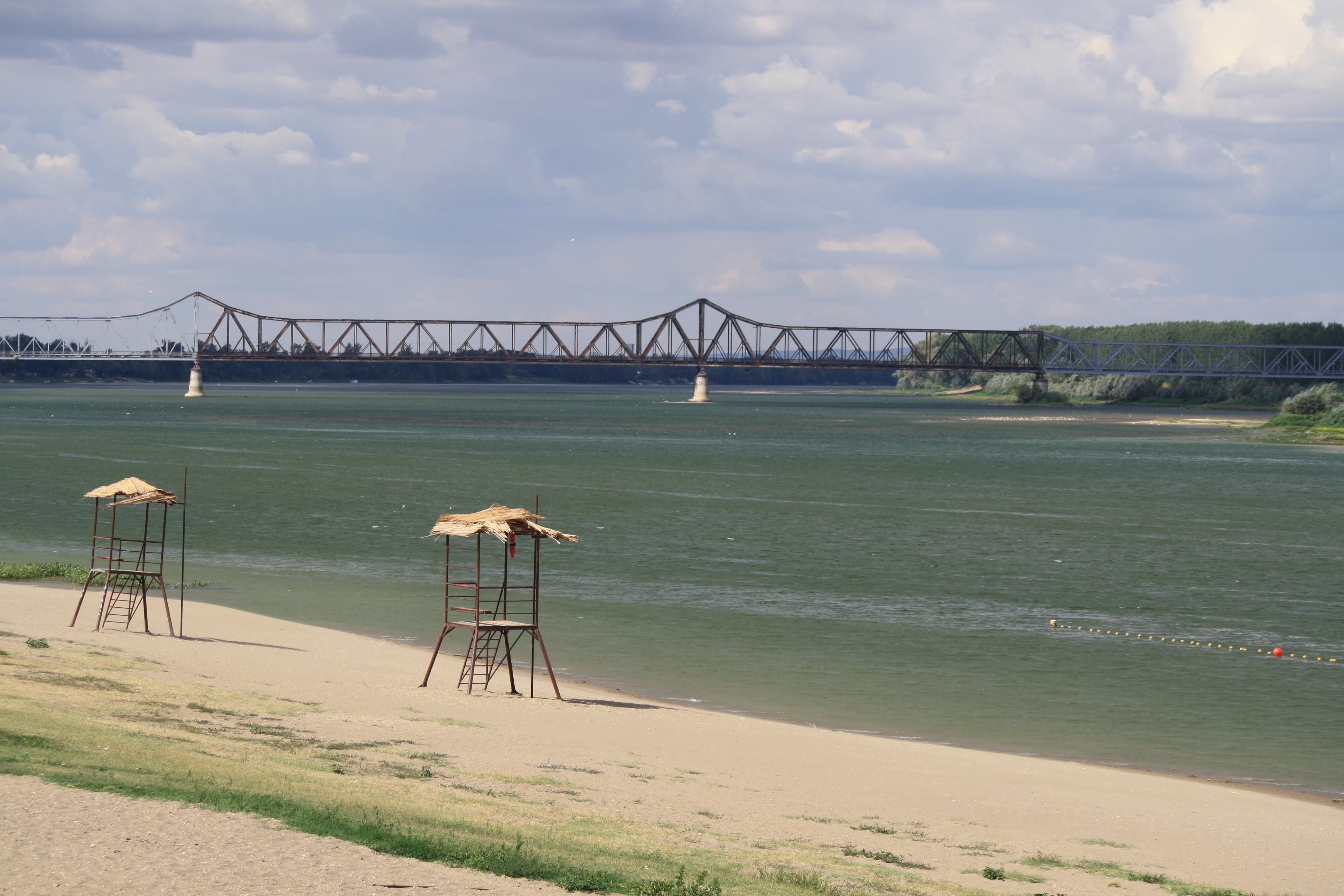 City beach on Sava river in Šabac and Old railroad bridge in background.